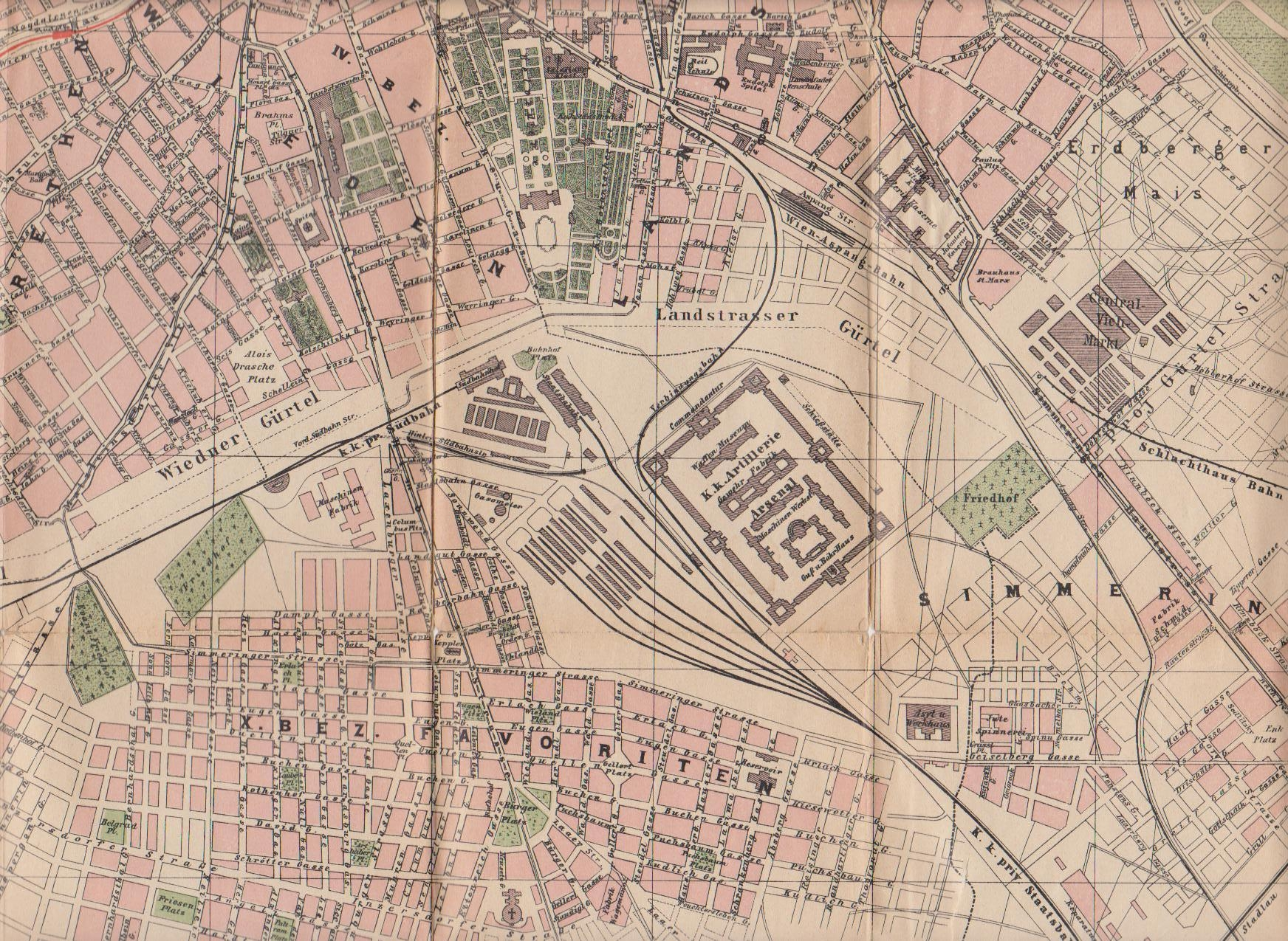 Part of a city map showing the southern part of Vienna's Gürtelstrasse still partly projected only (Wiedner Gürtel, Landstraßer Gürtel).